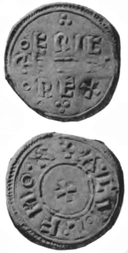 Coin minted at York, 947 x 954. Obverse legend reads ERIC REX (Eric 'Bloodaxe'), reverse: moneyer Radulf. Herbert Appold Grueber (1846-1927). Handbook of the Coins of Great Britain and Ireland in the British Museum. London, 1899. Plate 1, coin no. 119 (described at p. 21).